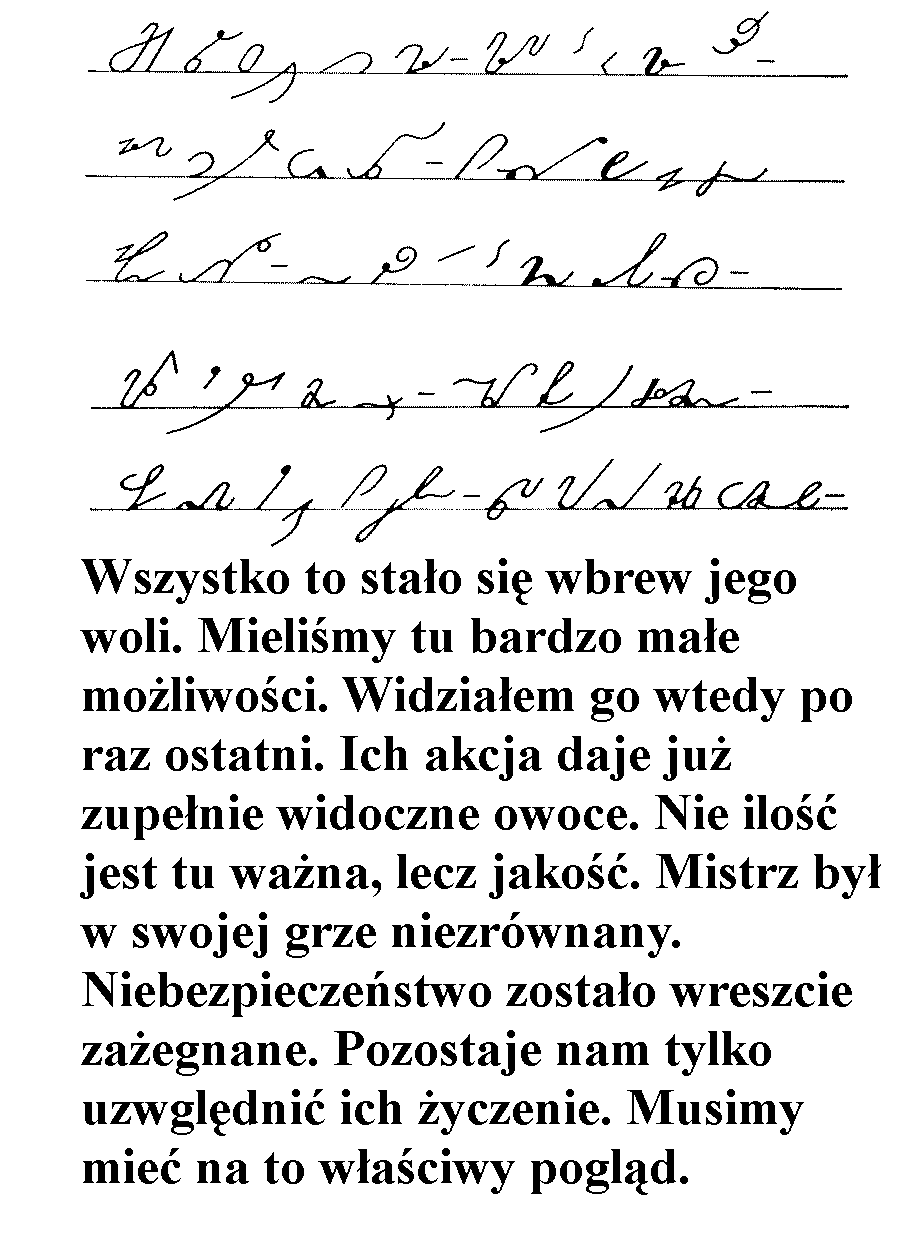 Transcript of an example of the stenograpny of Jozef Polinski's system